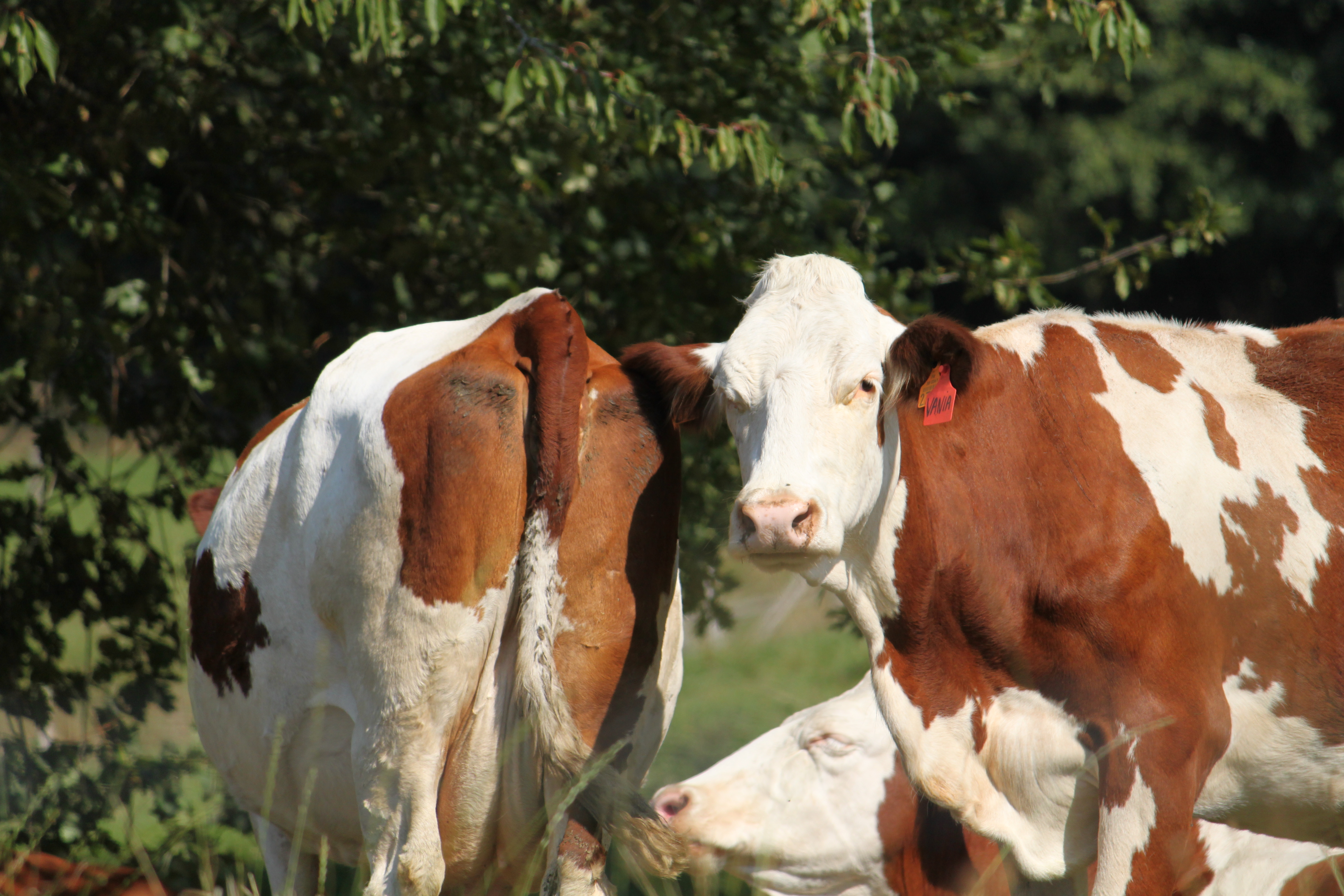 A cow's head, and another cow's derrière